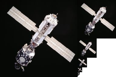 This image is a example of mip-mapping.